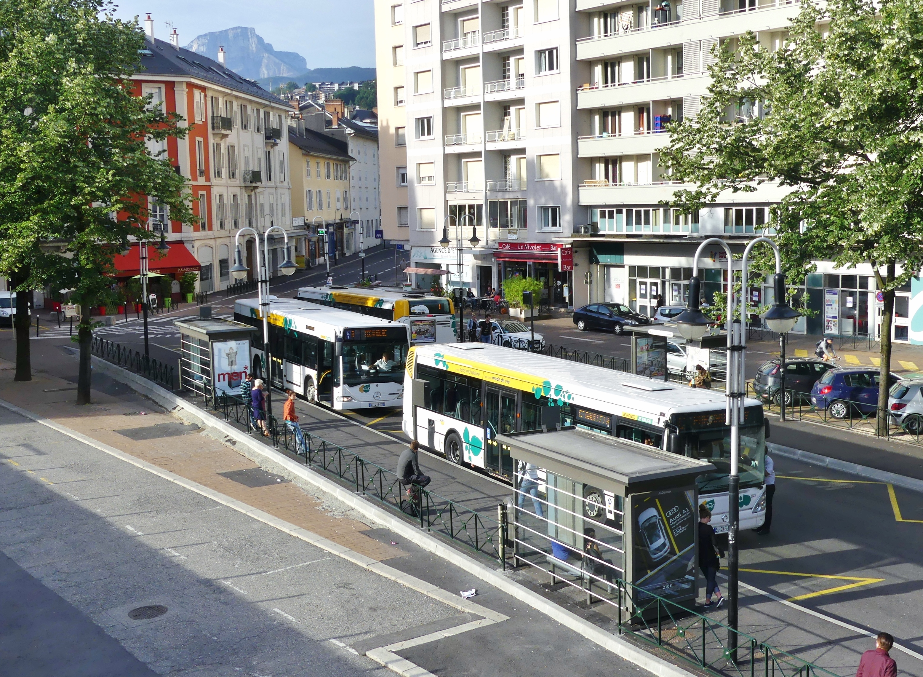 Sight of the connection site of 3 bus lines of STAC network, at Chambéry railway station, in Savoie, France.